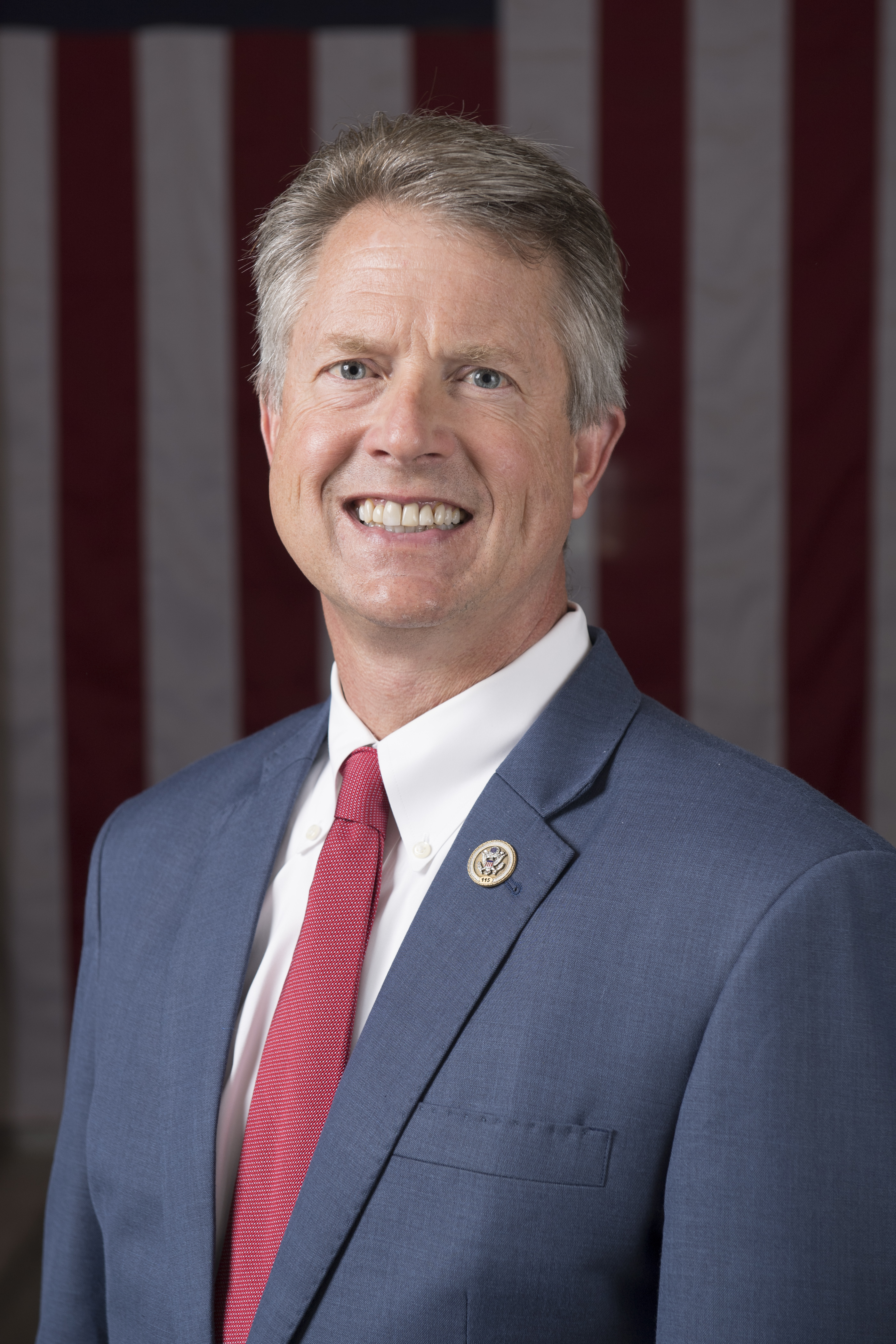 Roger Marshall Portrait 2017